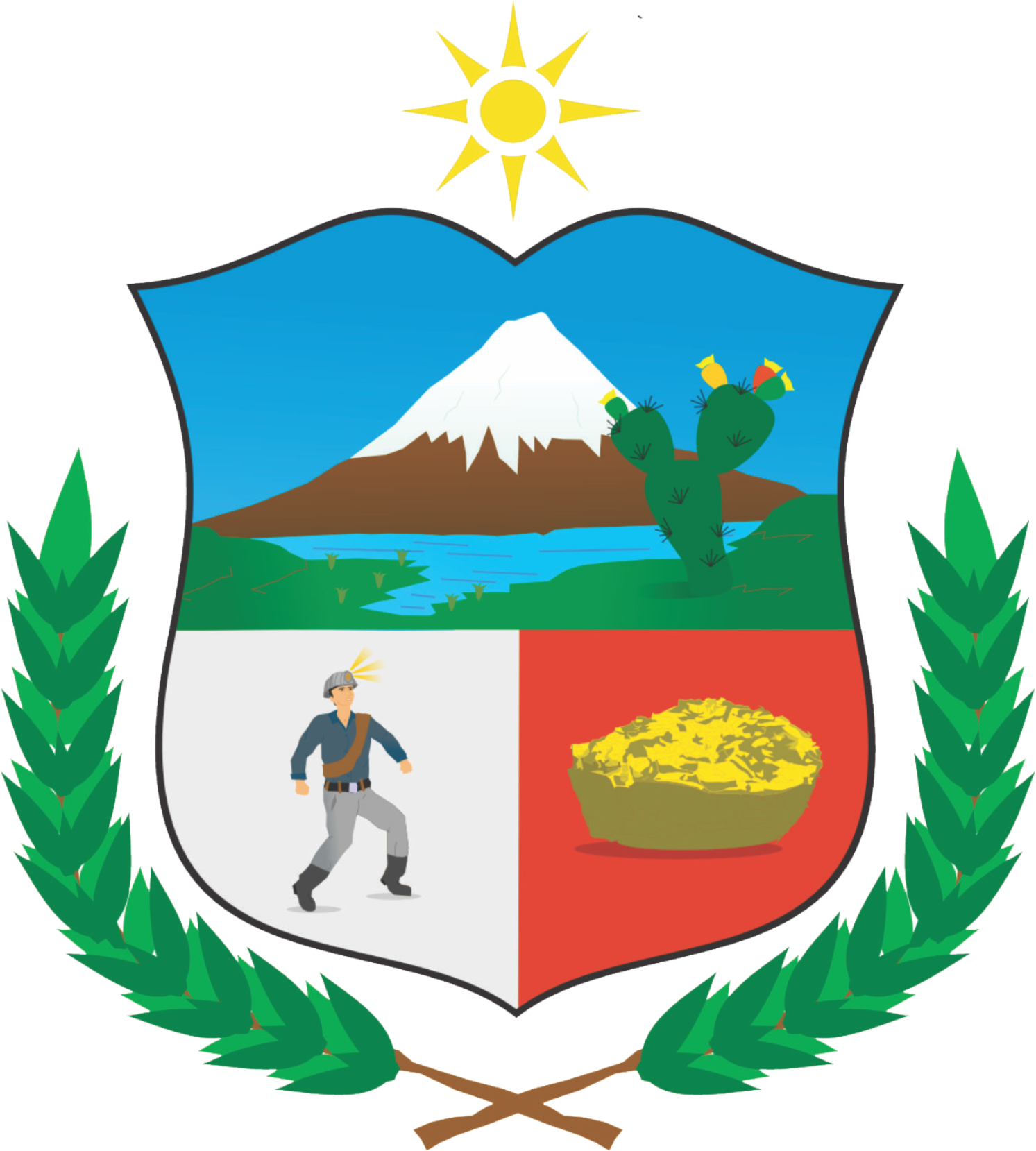 Apurimac region